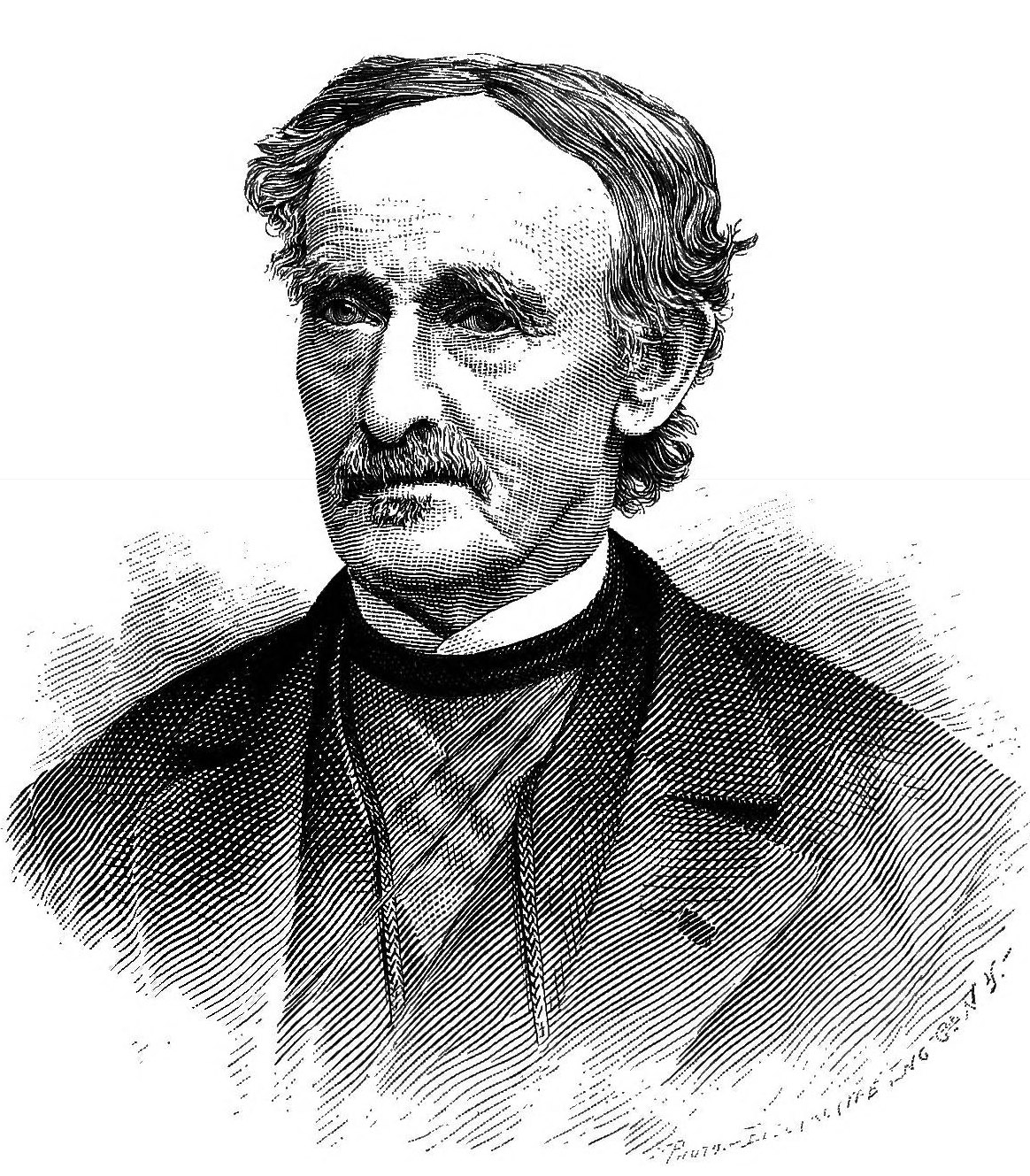 Joseph Francis, inventor of the Francis lifeboat and lifecar.